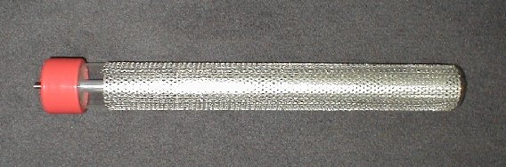 Ionize Tube for air purifiers in HVAC systems and standalone-systems